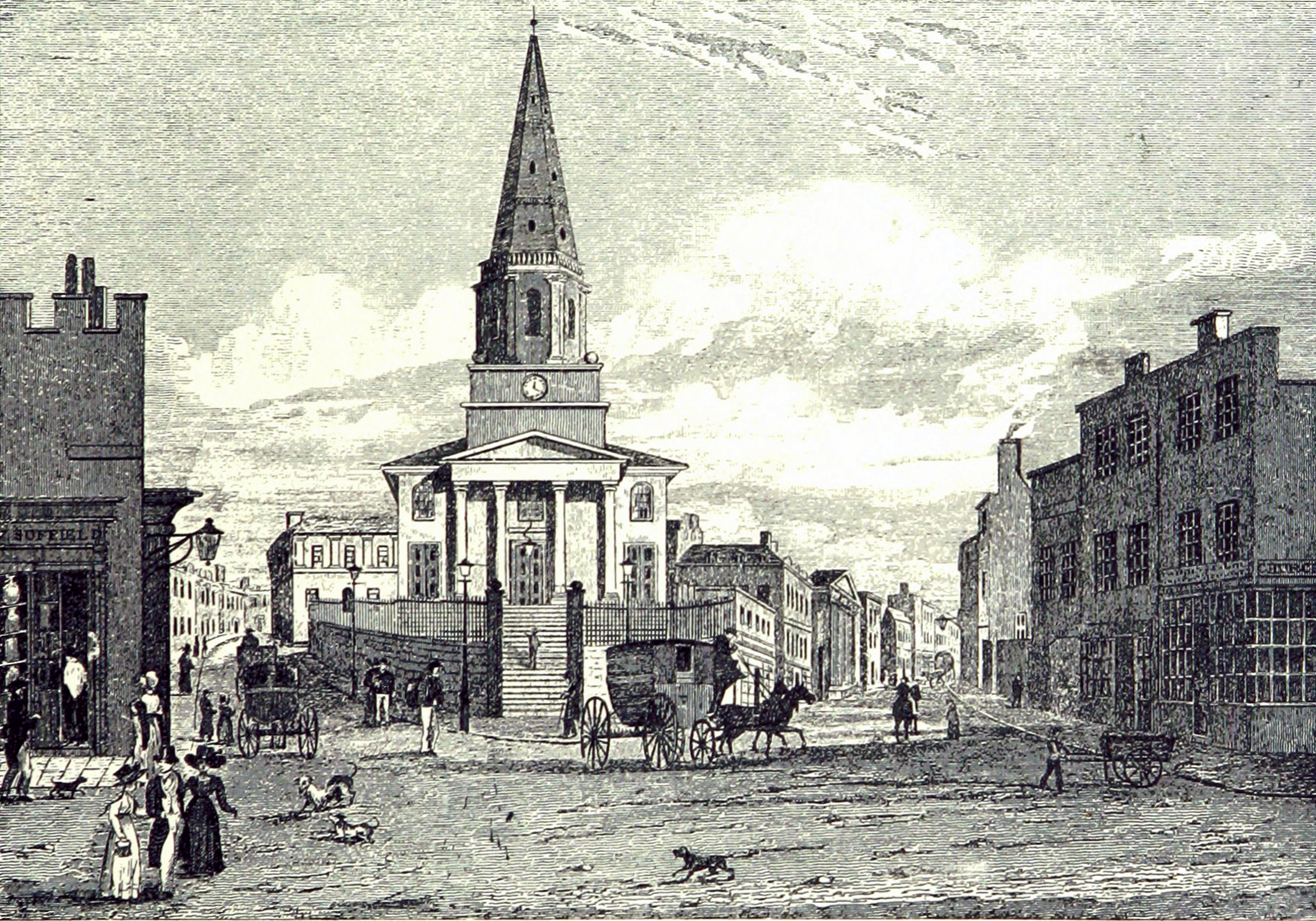 The, now demolished, Christ Church (1813-1899) on the corner of Ann Street and New Street, Birmingham, England. It stood on what is now Victoria Square. Image extracted from page 307 (279) of The Making of Birmingham: being a history of the rise and growth of the Midland metropolis ... With ... illustrations, etc', by DENT, Robert Kirkup. Original held and digitised by the British Library. Copied from Flickr. Note: The colours, contrast and appearance of these illustrations are unlikely to be true to life. They are derived from scanned images that have been enhanced for machine interpretation and have been altered from their originals.